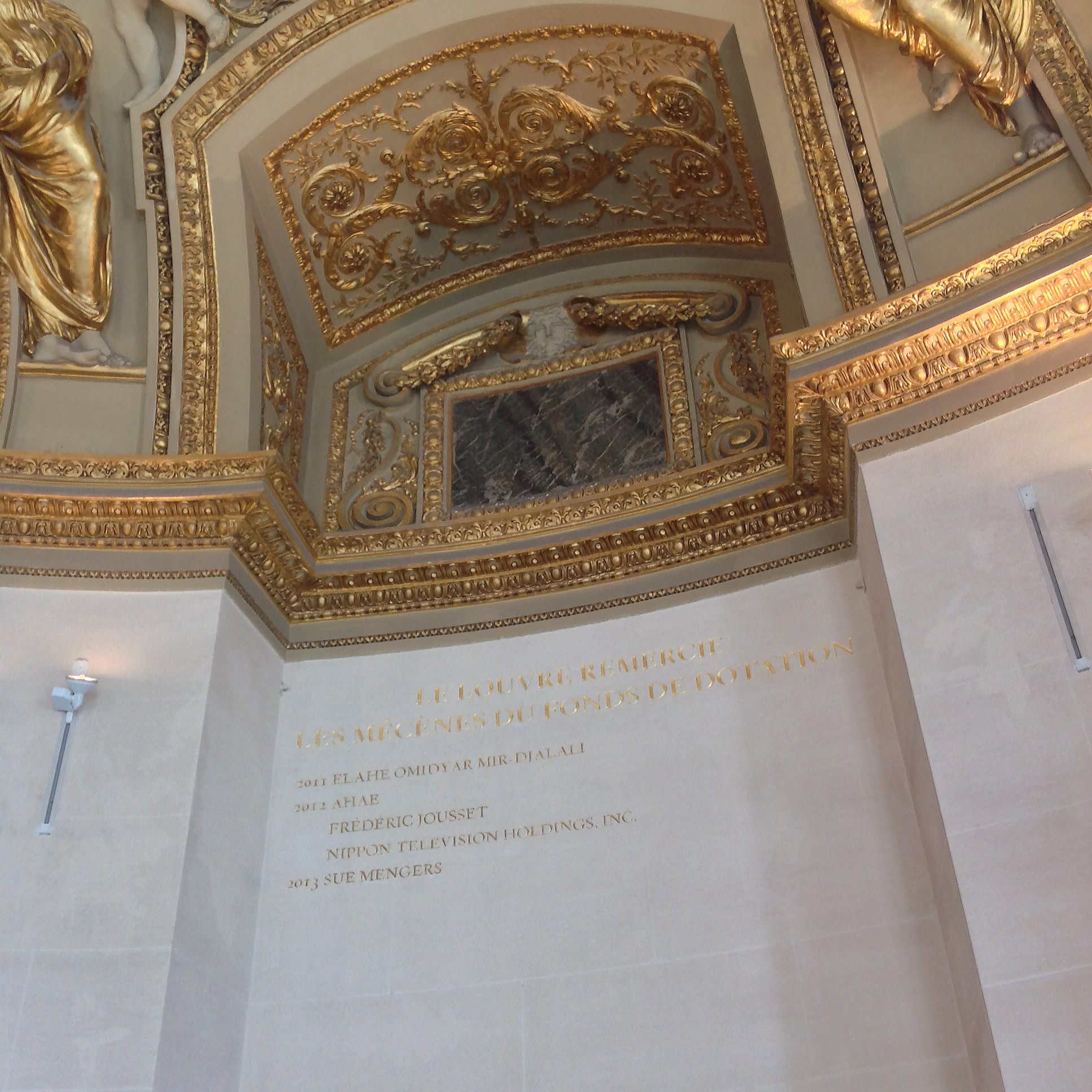 South Korean Yoo Byung-eun alias Ahae has his name engraved on the walls of The Lovre as a patron. (Photo curtesy of Bernard Hasquenoph.)